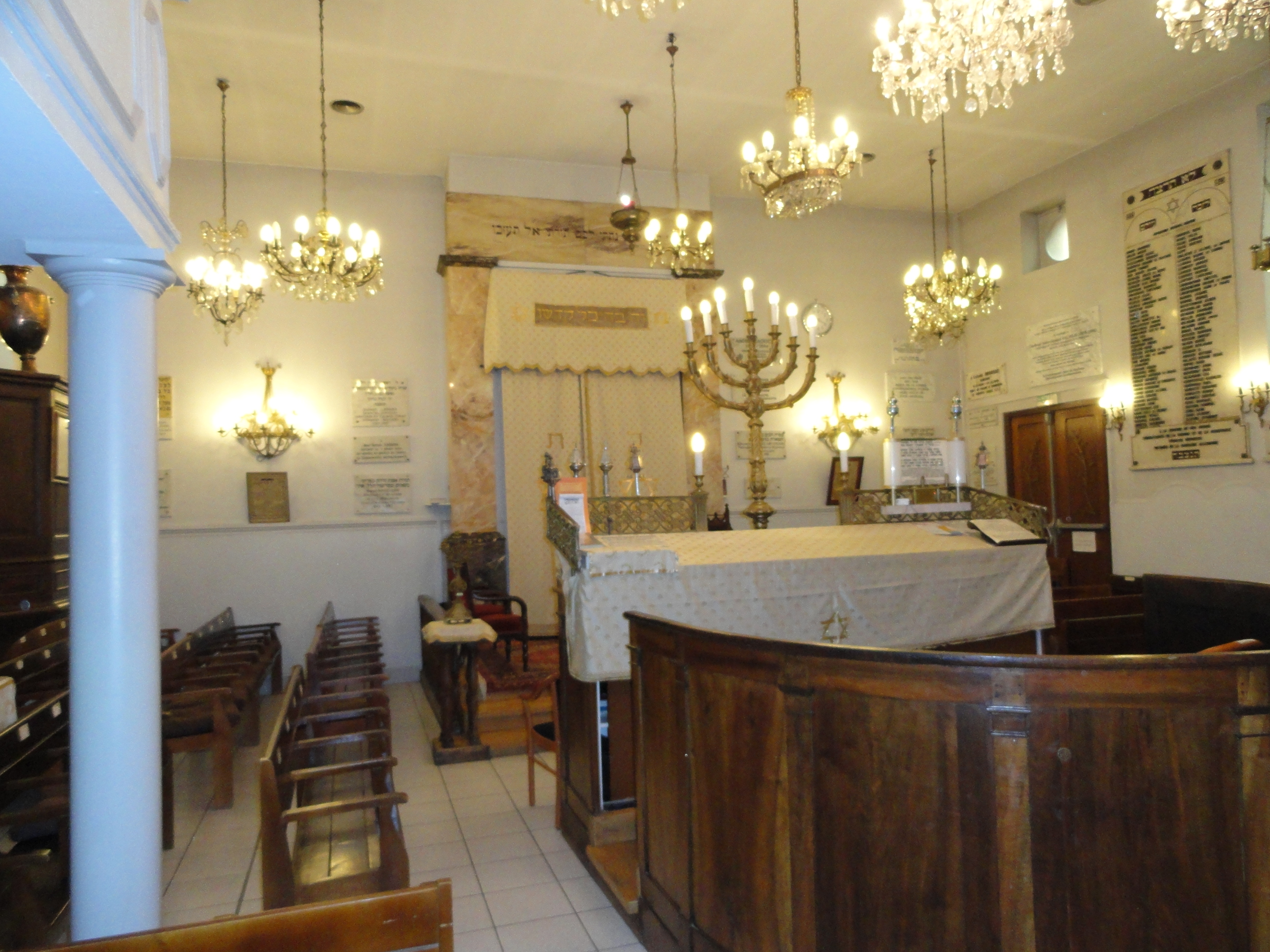 Synagogue Palaprat-Toulouse - France- Bimah and Torah ark